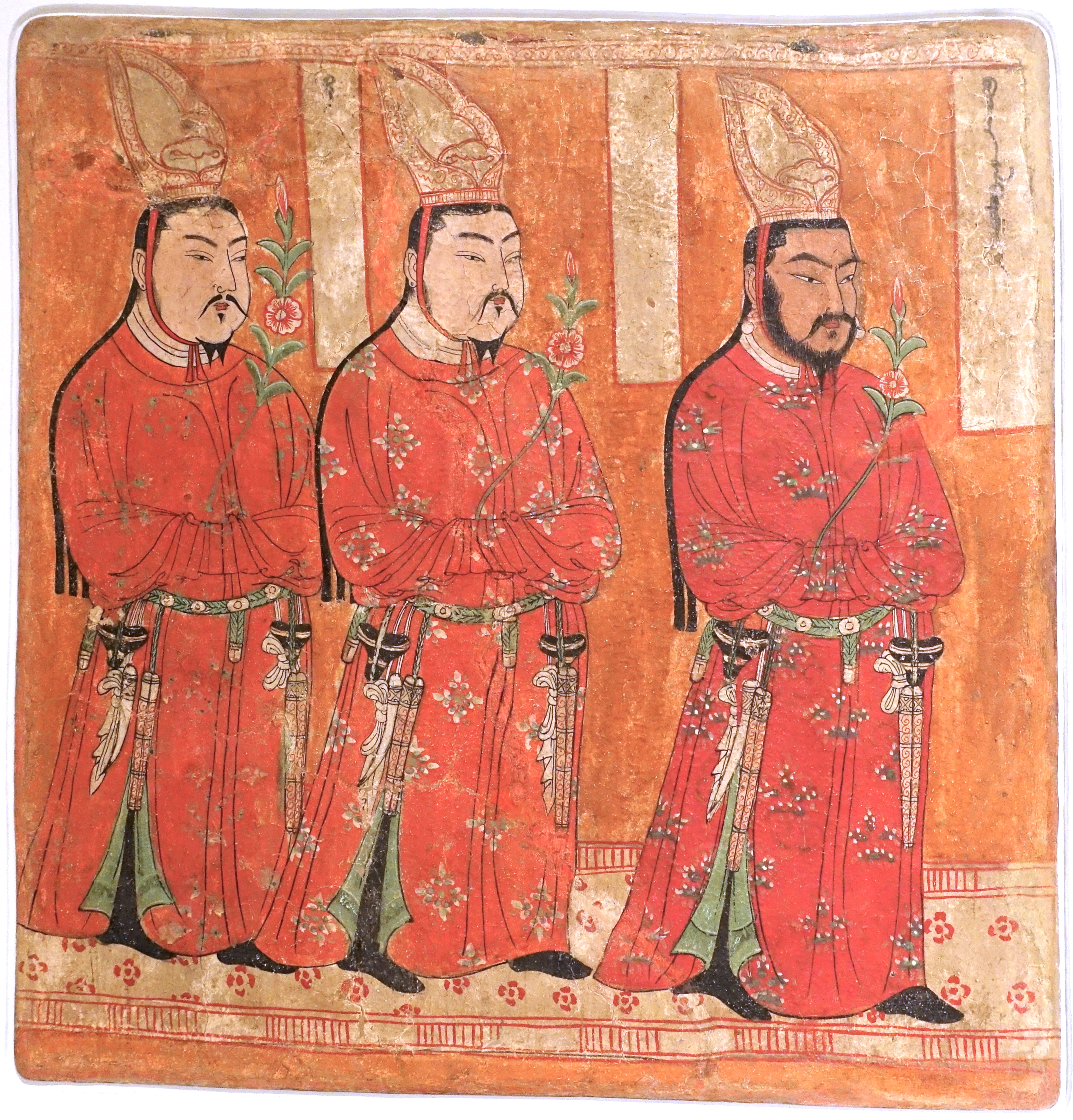 Exhibit in the Ethnological Museum, Berlin, Germany.